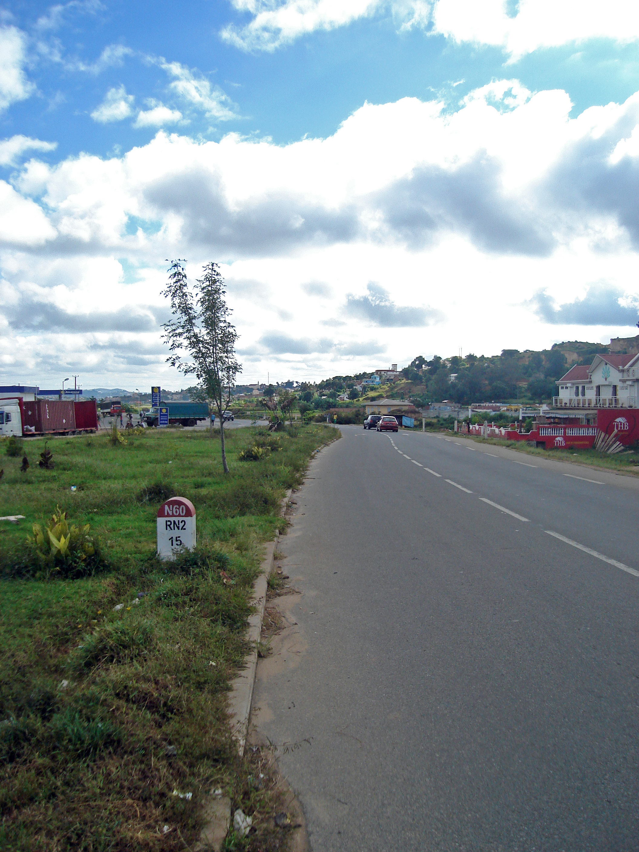 Madagascar's National Road No. 60 (RN60), the southwestern by-pass of the capital Antananarivo between the RN7 and RN2